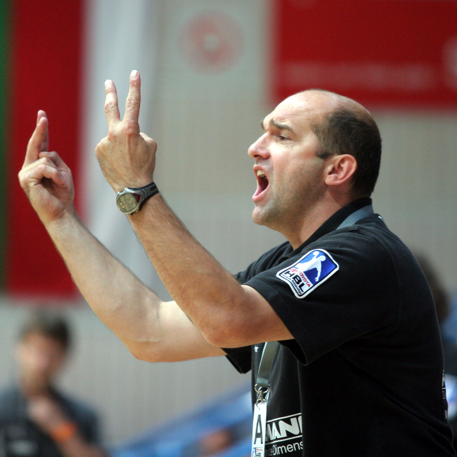 Peter Dávid, handball coach of TV Großwallstadt, on May 23rd 2009 in Aschaffenburg (Germany) during the game TV Großwallstadt vers. MT Melsungen.